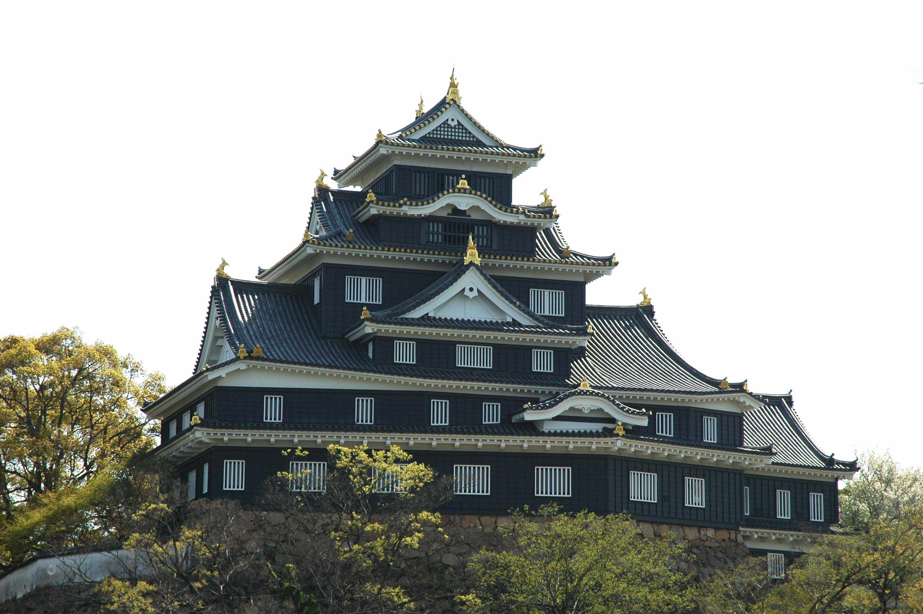 photo of Okayama Castle Keep Tower(from north side)